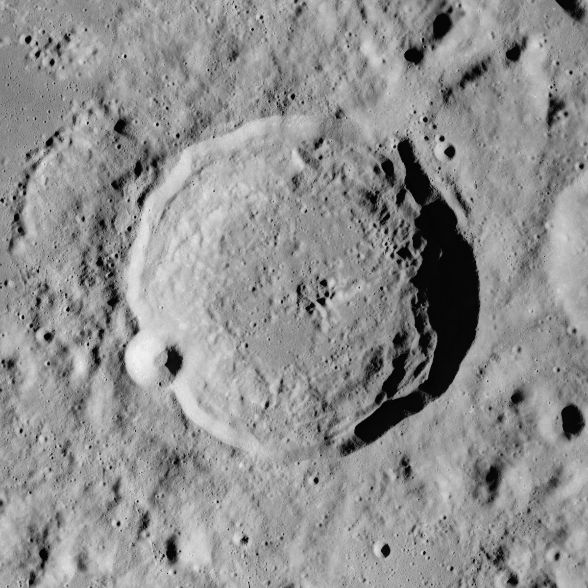 Macrobius (crater), on the moon. Camera altitude 239 km, sun elevation 18 deg.